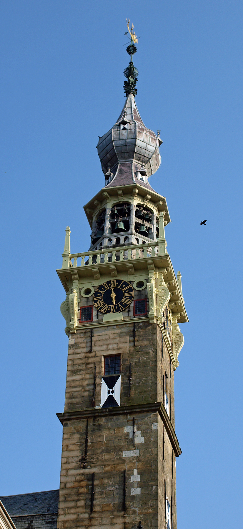 townhall tower veere